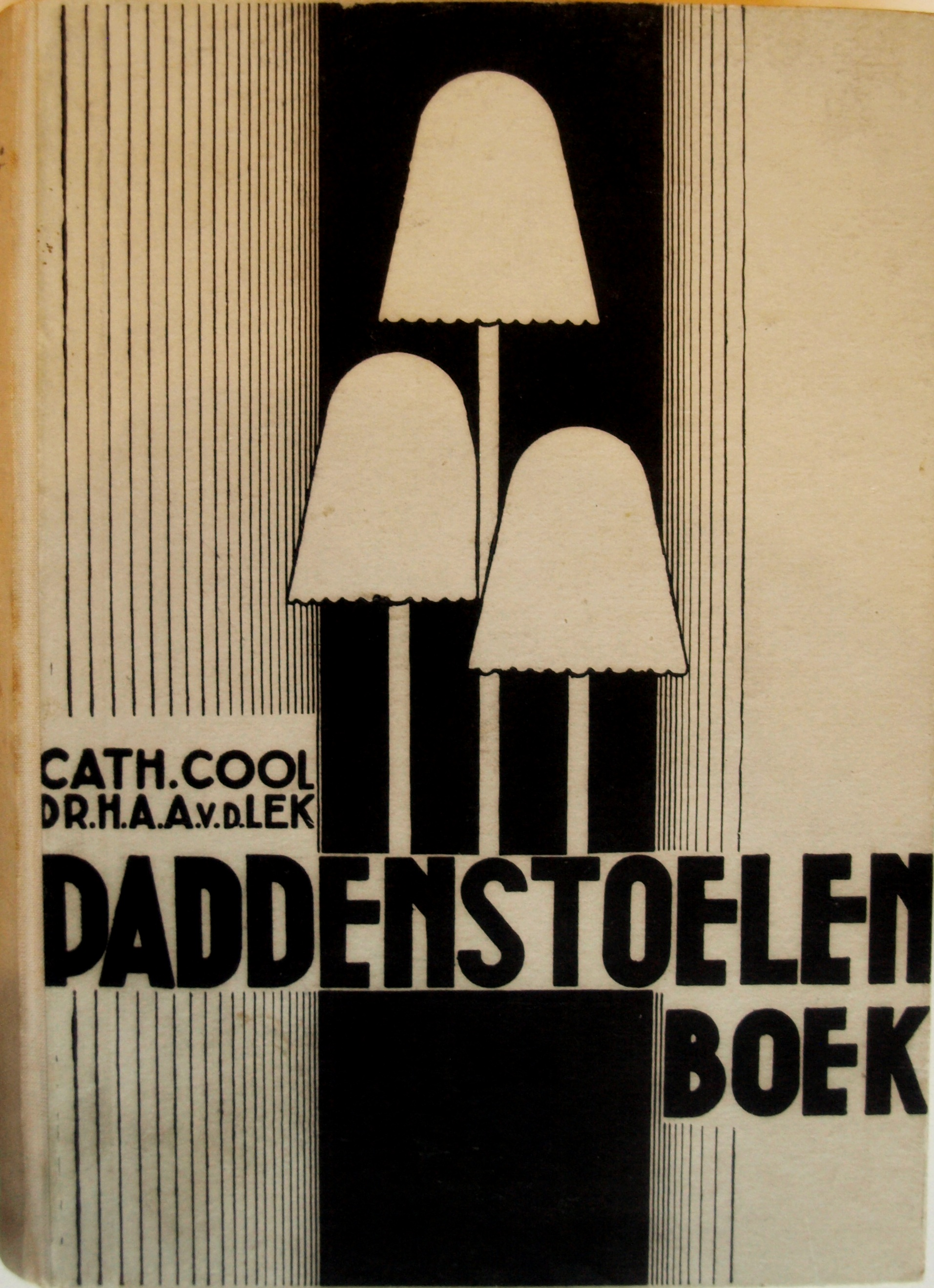 cover of Het Paddenstoelenboekje, 1936 by Cath. Cool and H.A.A. van der Lek